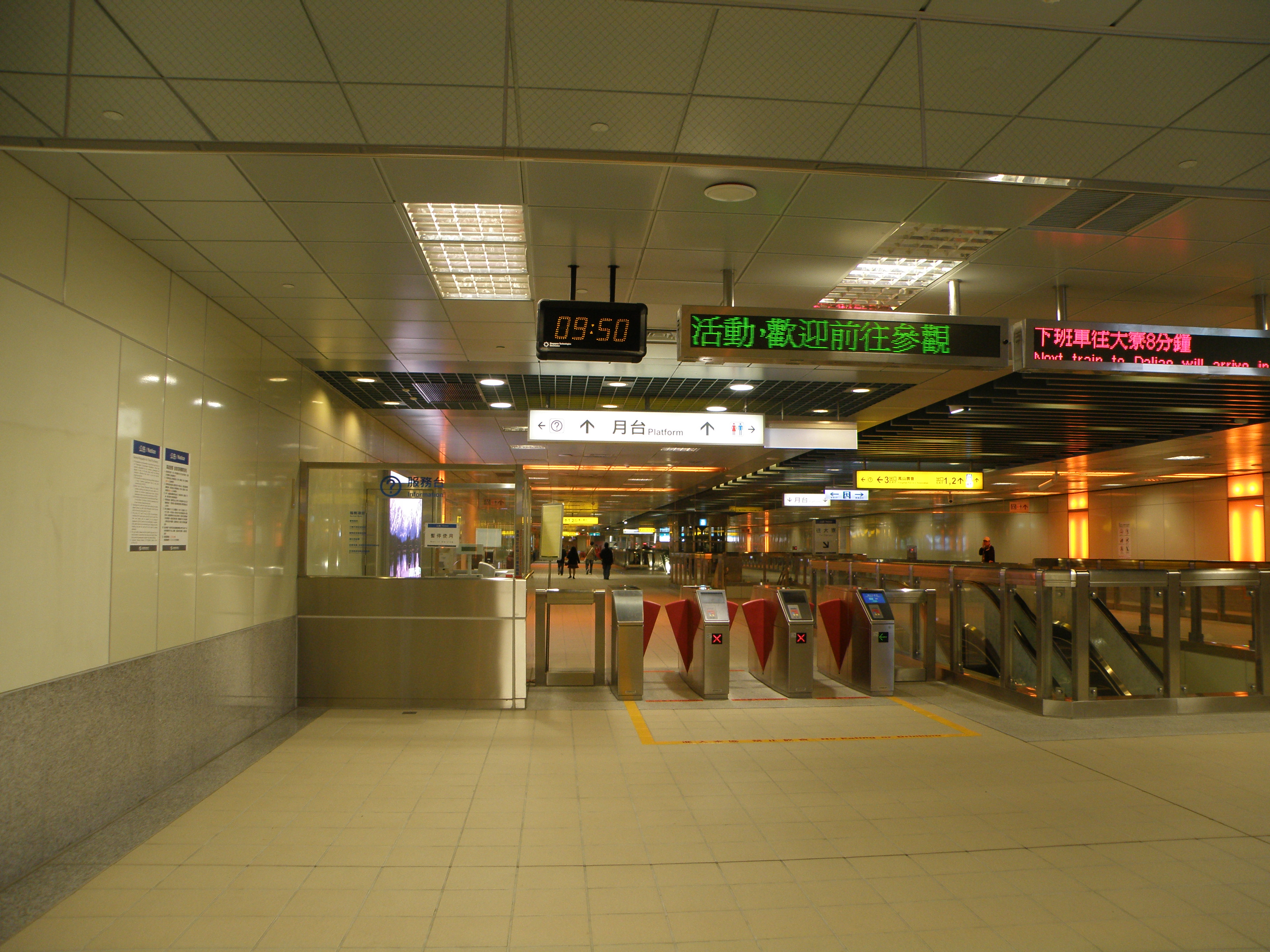 Basement Concourse of Fongshan Junior High School Station, Kaohsiung Mass Rapid Transit.